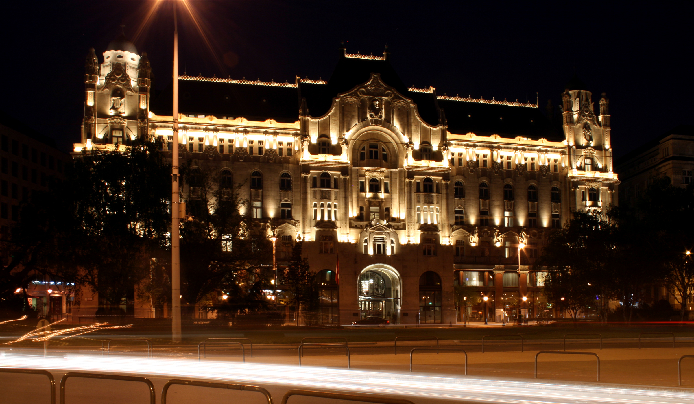 Night view on hotel Gresham Palace, Budapest, Hungary